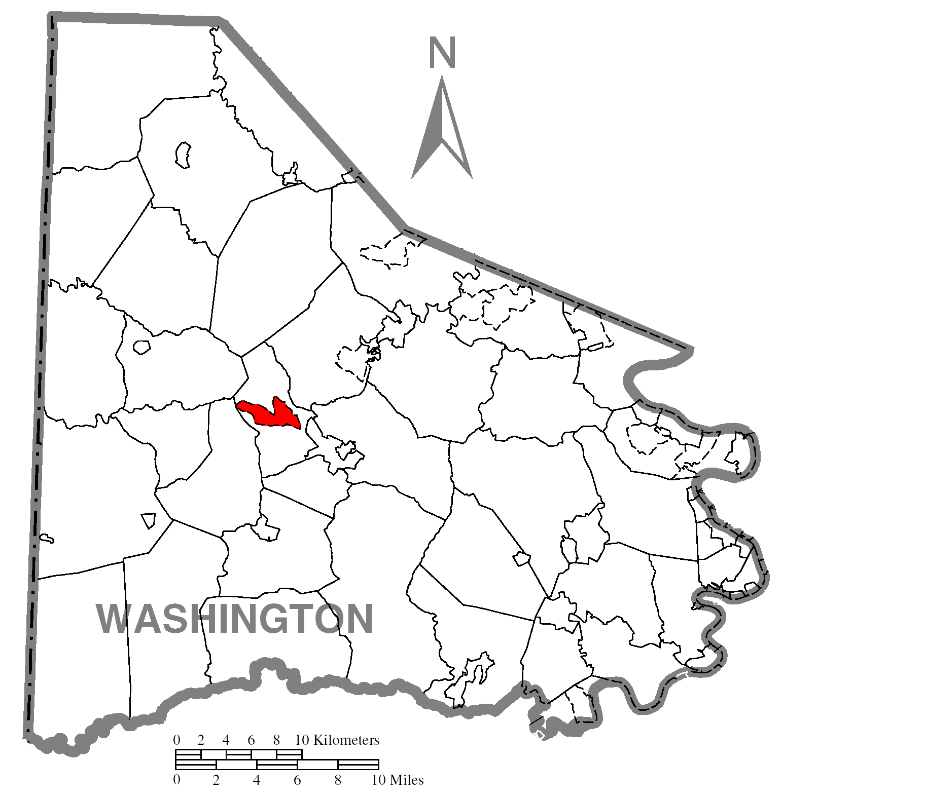 Map of Washington County higlighting Wolfdale.